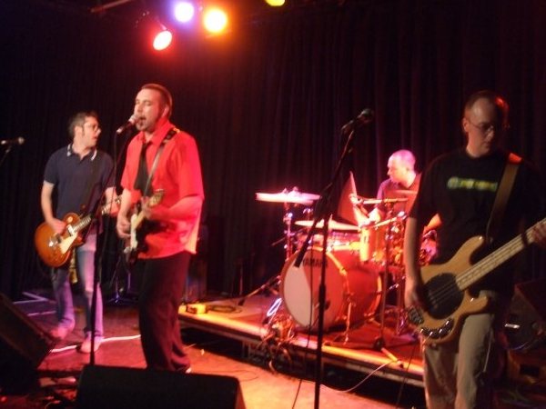 Inter (Band) : Fan photo taken at a private show 2009